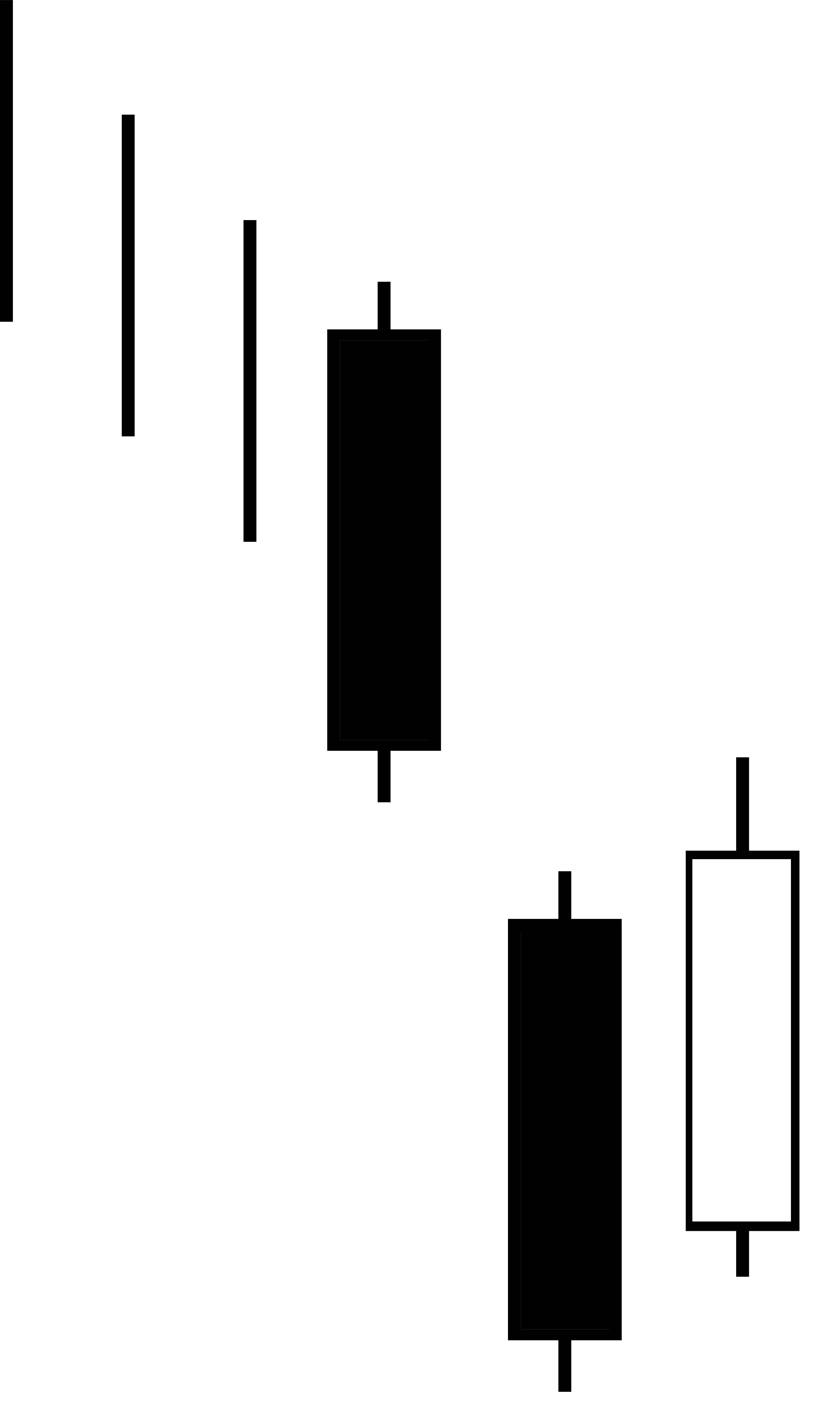 bearish Downside Tasuki Gap